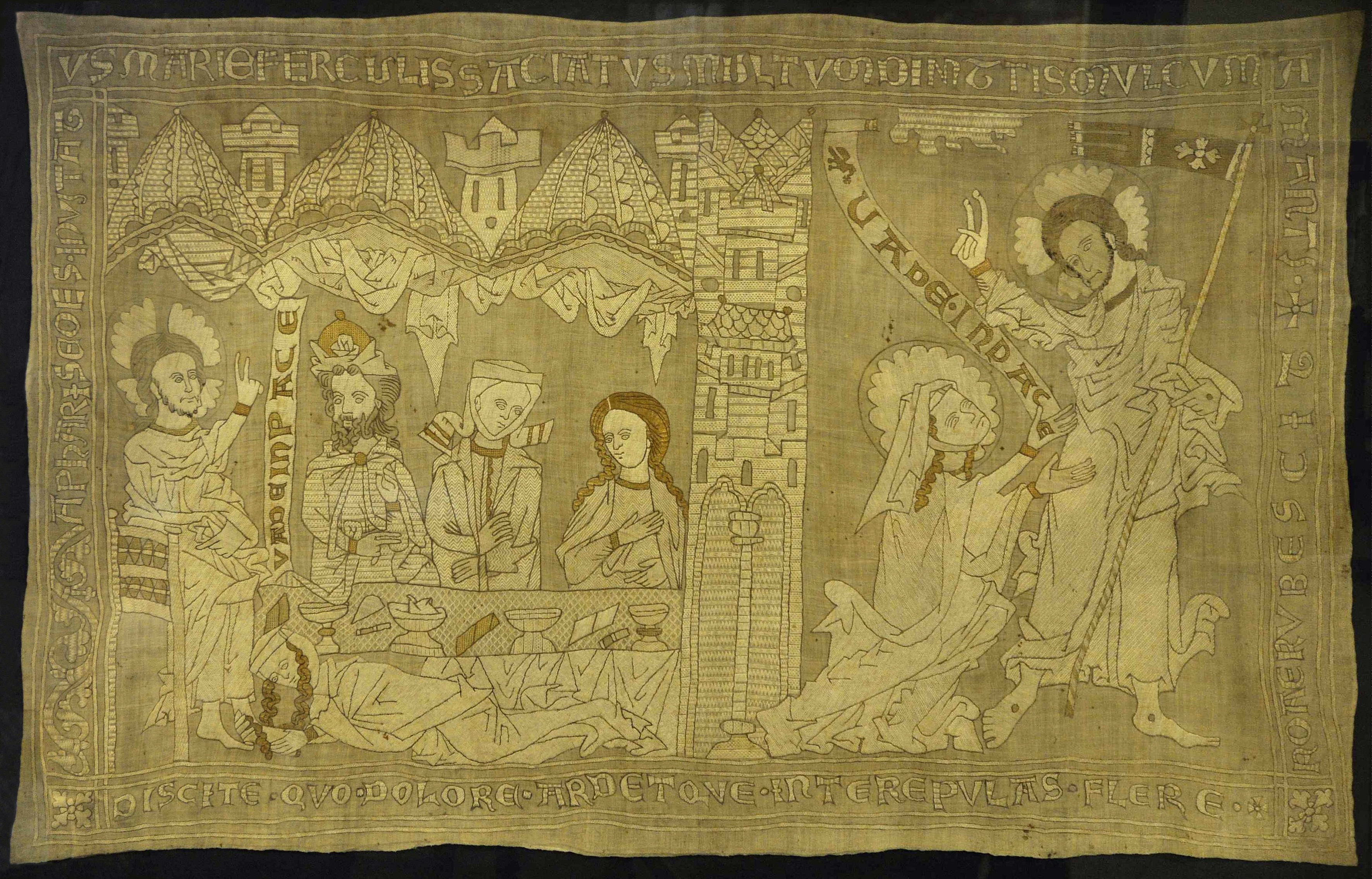 This antependium, the so called "Magdalenenteppich" or "Maria-Magdalena-Antependium" in St. Sylvestri Wernigerode, is a whitework embroidery and was made ~1250.